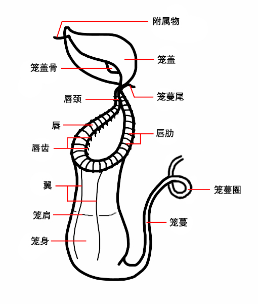 Nepenthes upper pitcher diagram Created in Inkscape by Mgiganteus1 == in Chinese